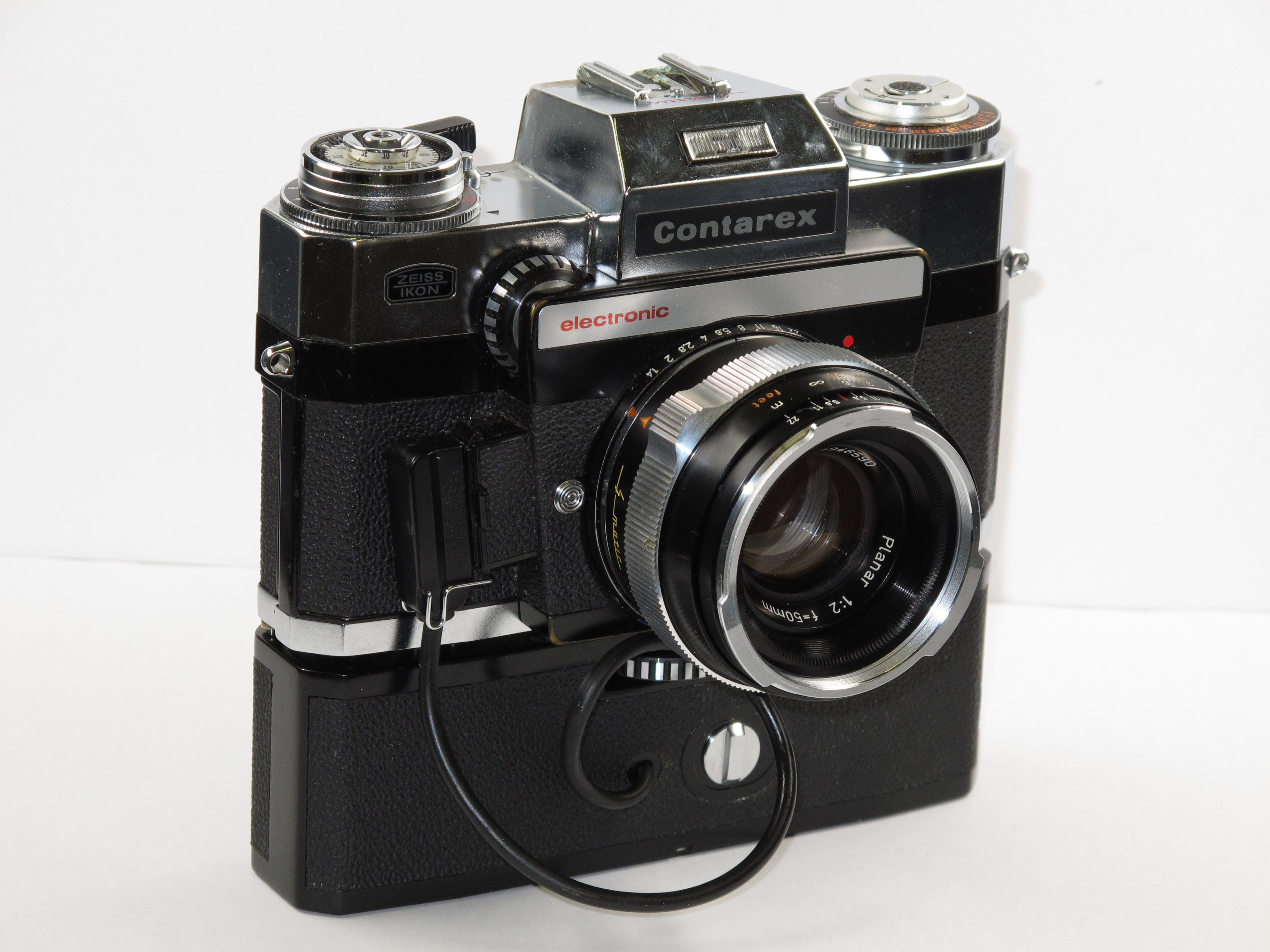 Zeiss Contarex Electronic